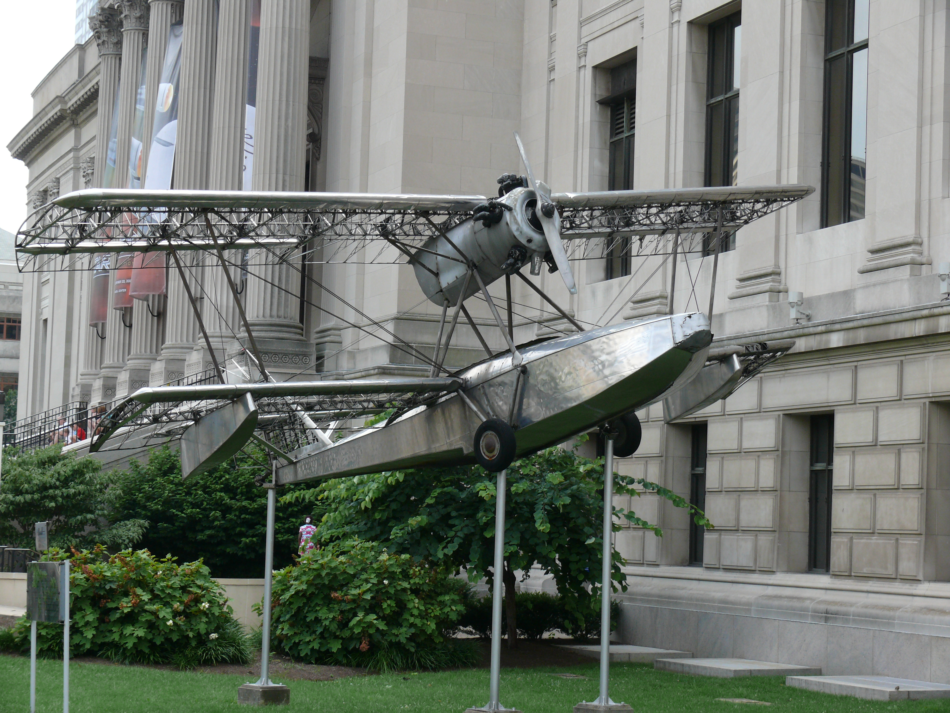 The Budd BB-1 Pioneer was an experimental United States flying boat of the 1930s. Its framework was constructed entirely of stainless steel. In 1934 it was placed on permanent display outside the Franklin Institute in Philadelphia, Pa.